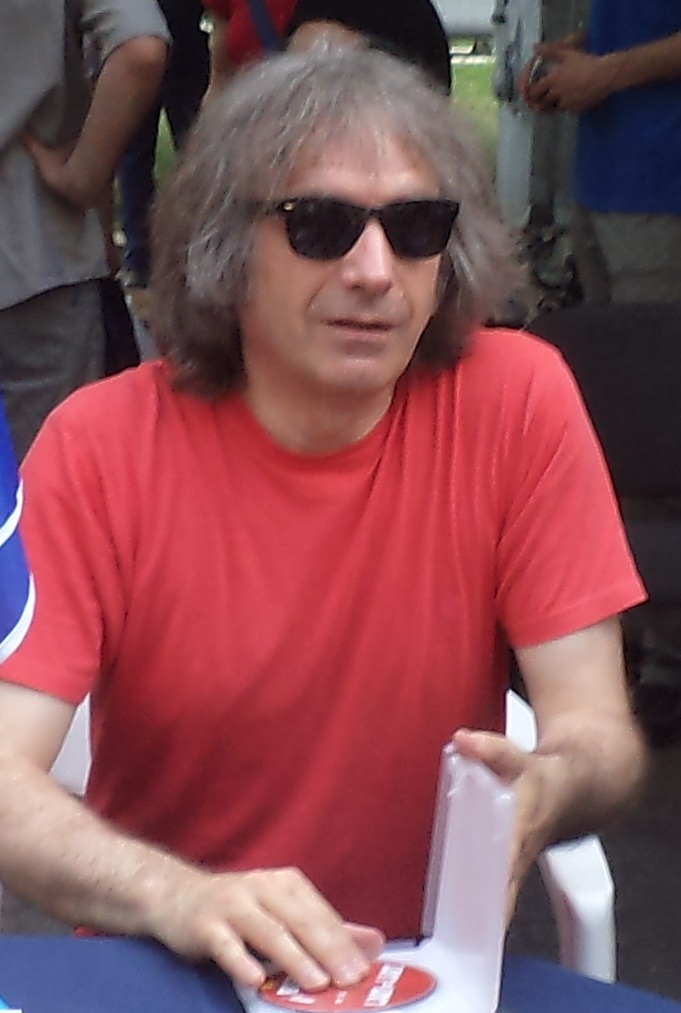 Róbert Dolák-Saly Hungarian comedian, actor at Ünnepi Könyvhét 2012